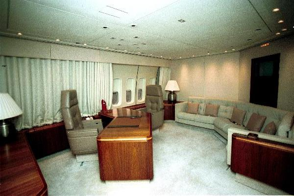 The President's office aboard Air Force One